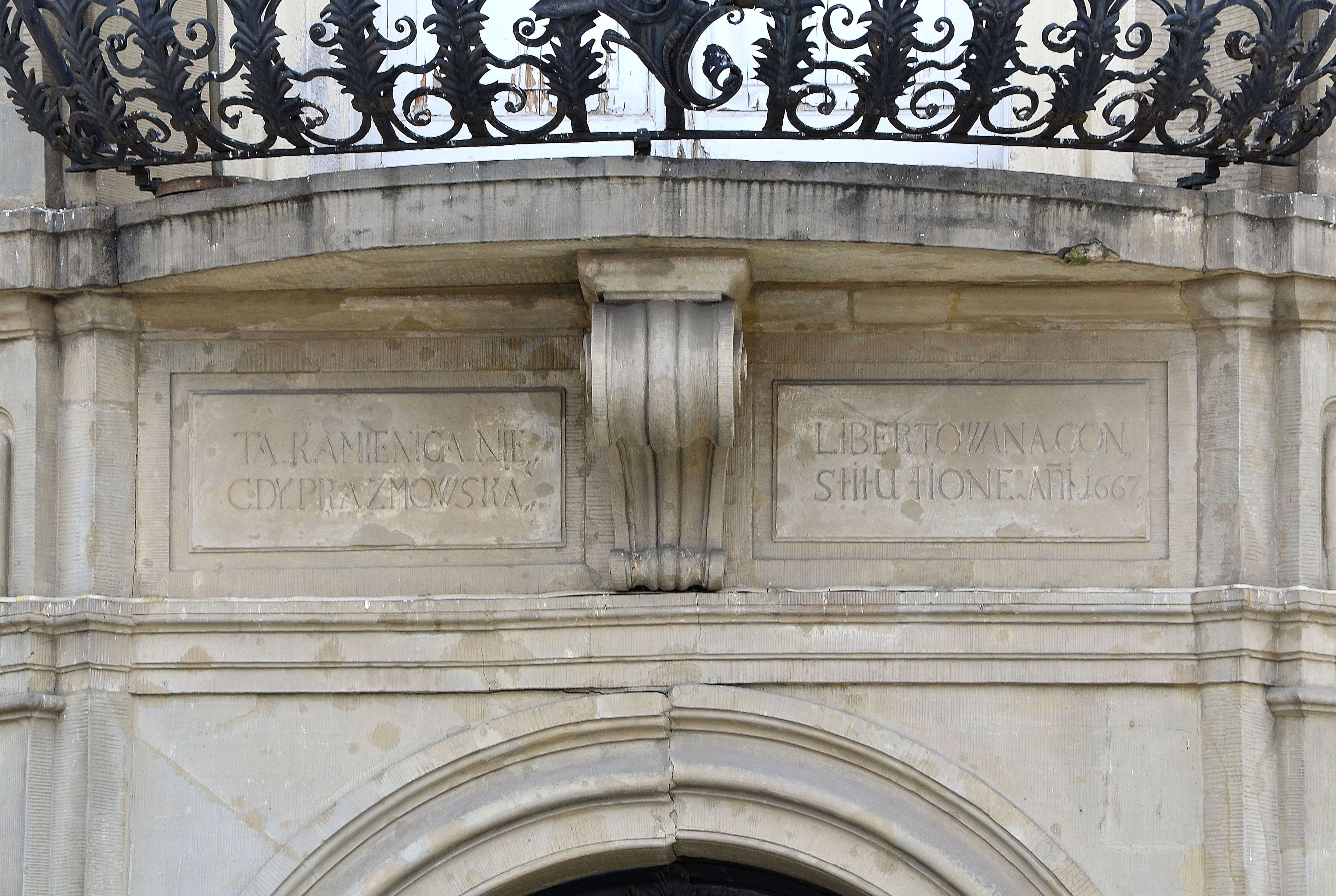 Libertatio plaque at 87 Krakowskie Przedmieście Street in Warsaw